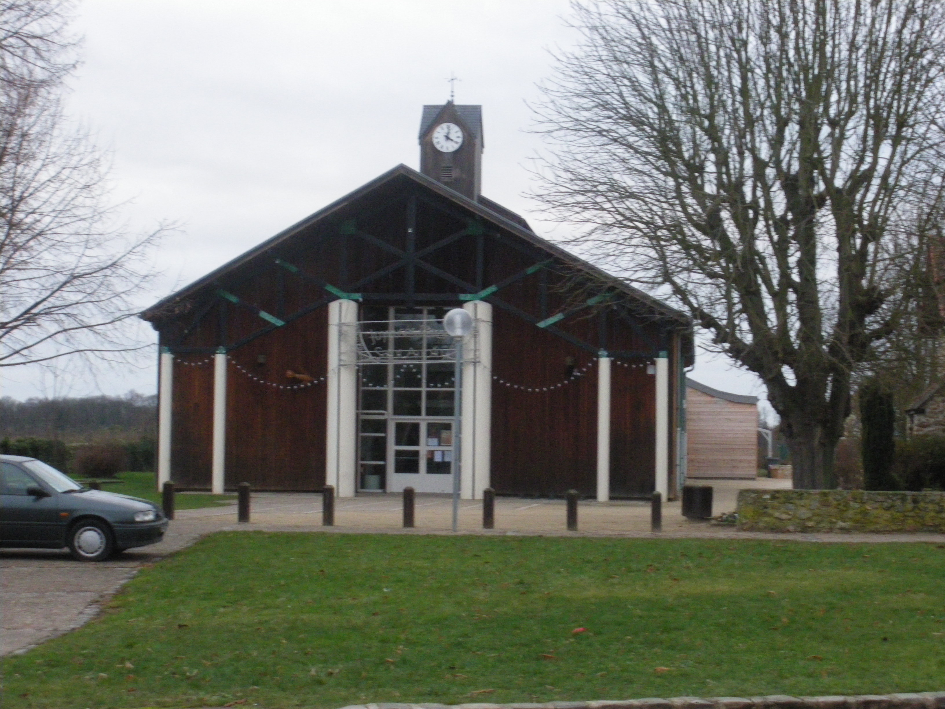 Saint Aubin's library, Essonne, France